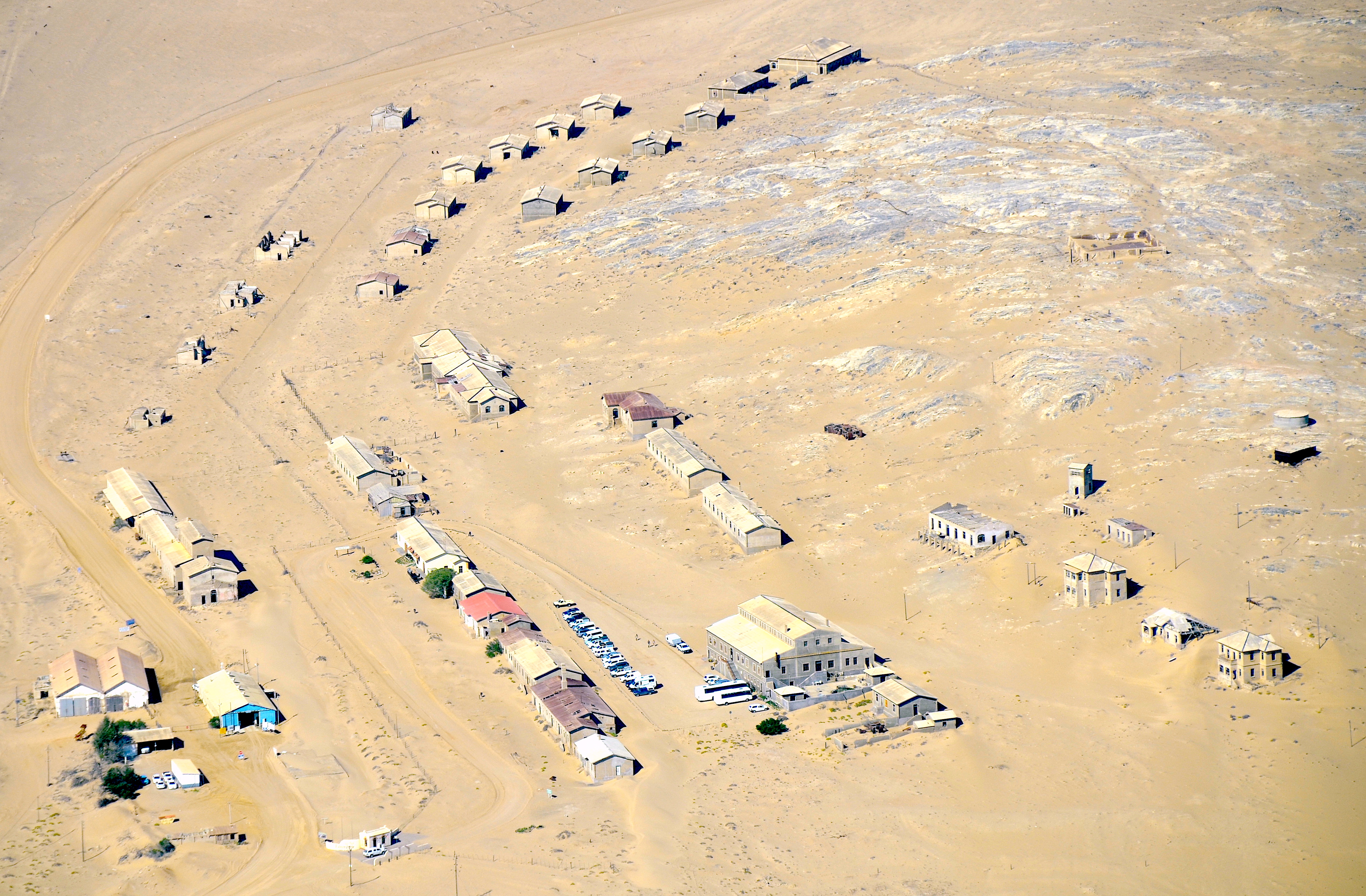 Kolmanskop near Lüderitz in Namibia (2017)